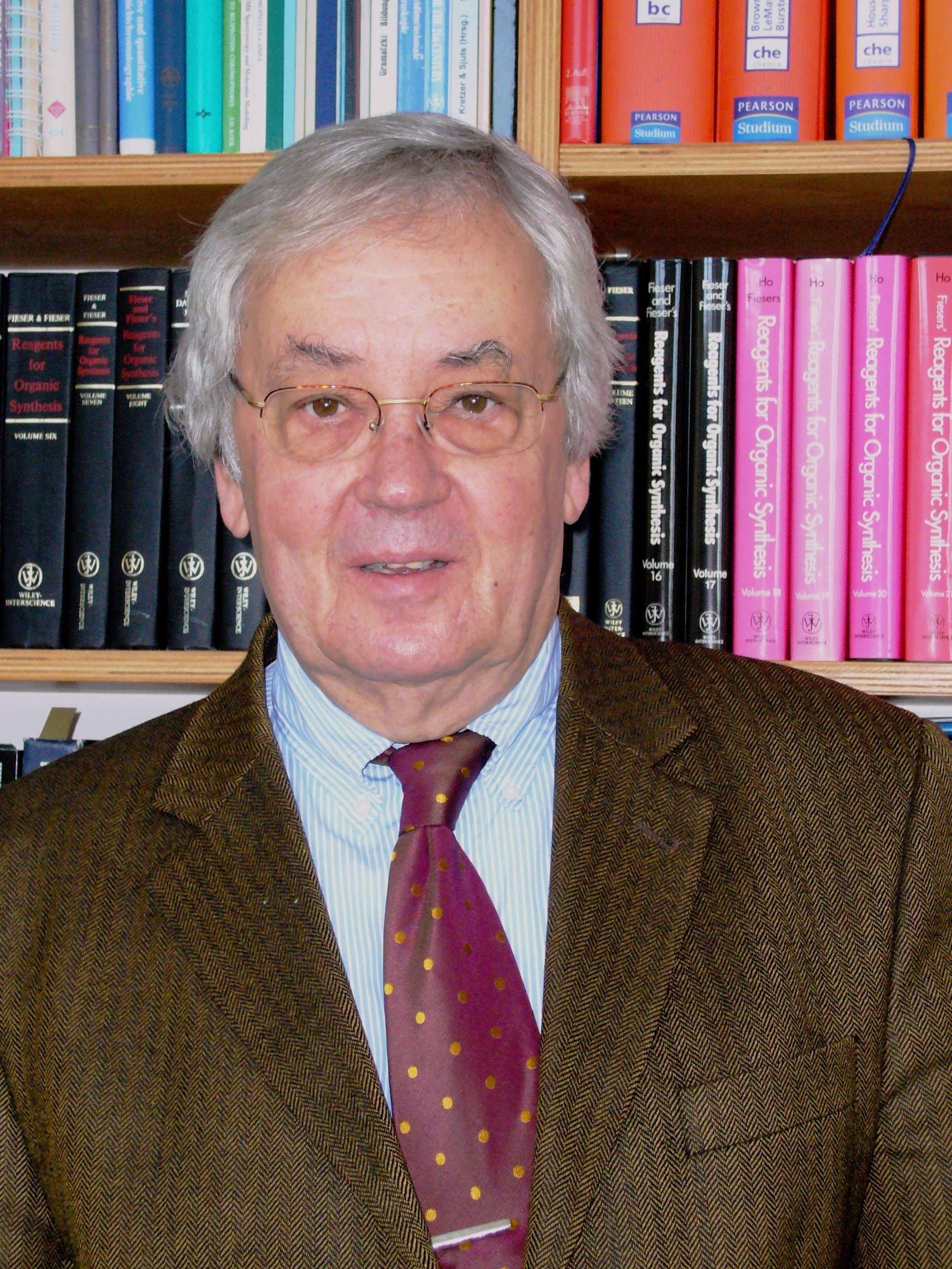 Montforts_Franz-Peter